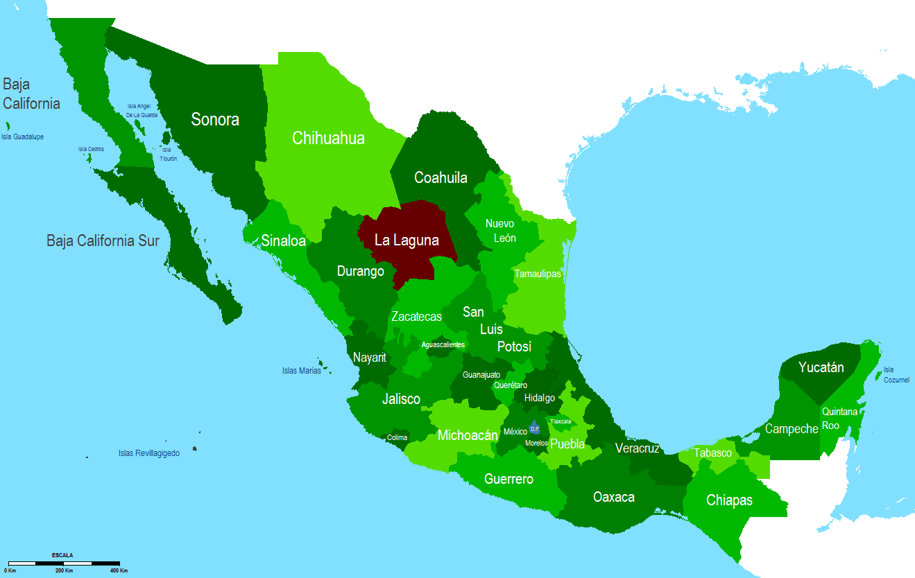 Location hypothetical state of La Laguna